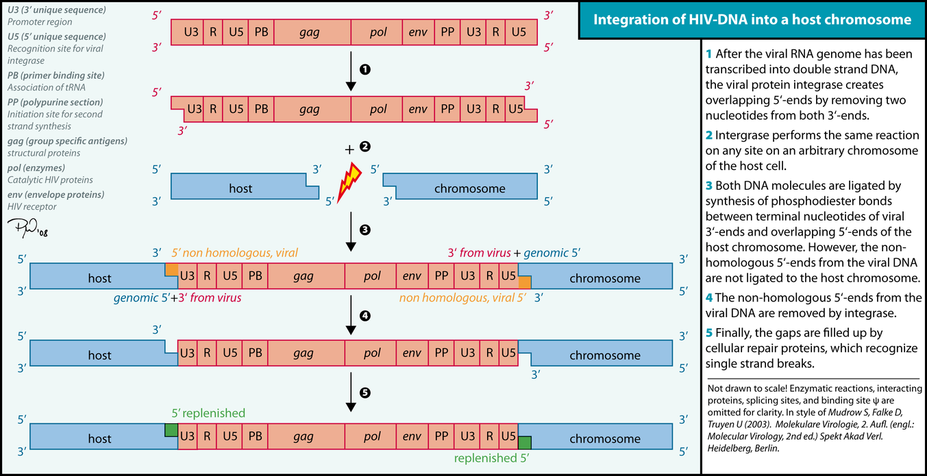 Integration of HIV-DNA into a host chromosome